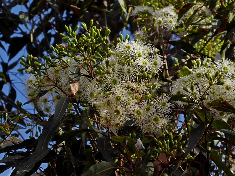 Flower buds and flowers of Corymbia gummifera near Merimbula